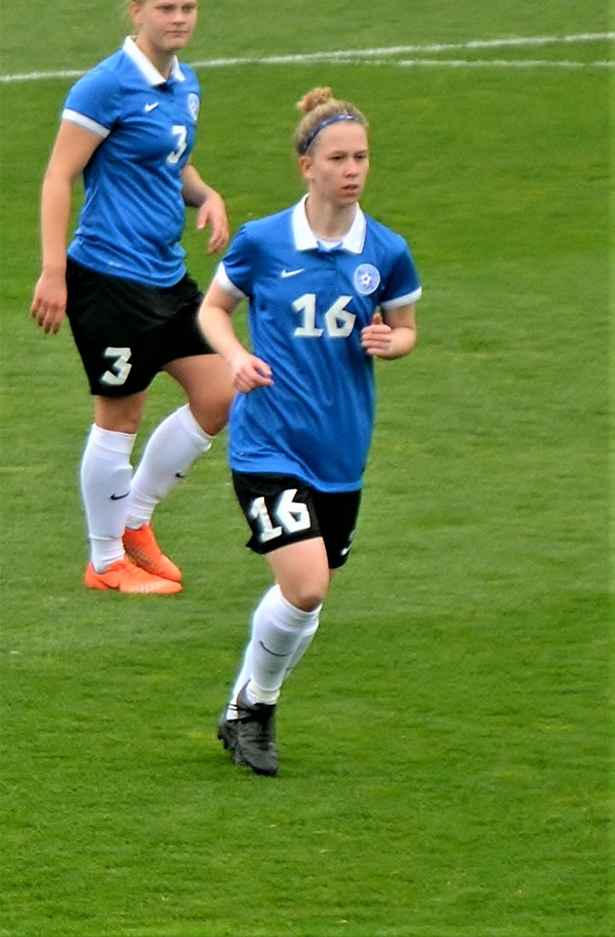 Kelly Rosen playing for Estonia women's national football team in the friendly away match against Turkey at TFF Riva Facility on 7 April 2018.